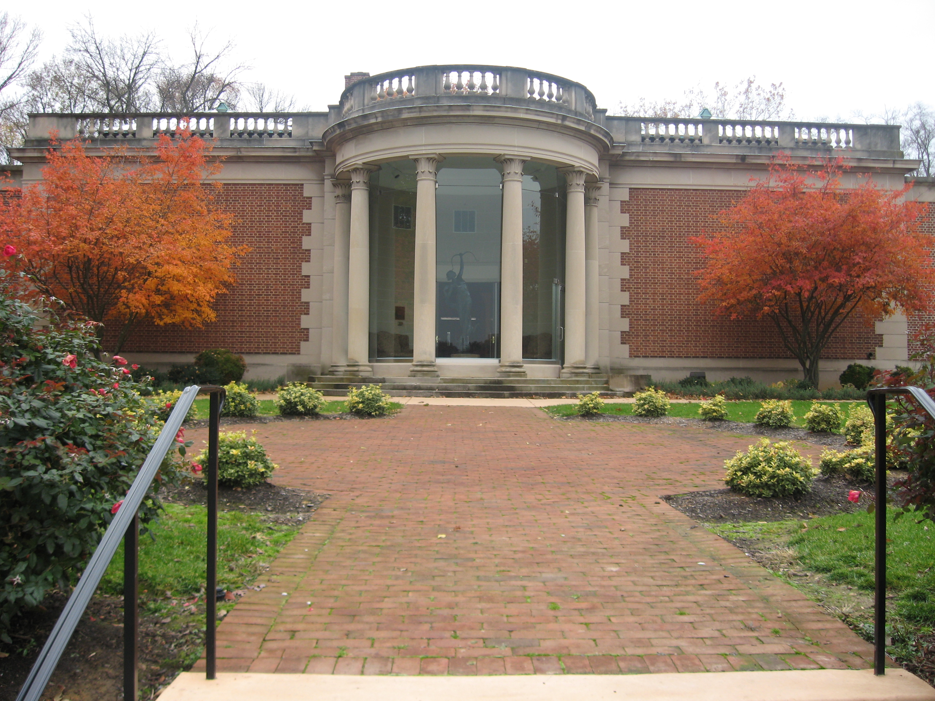 Front view of Washington County Museum of Fine Arts in Hagerstown City Park.